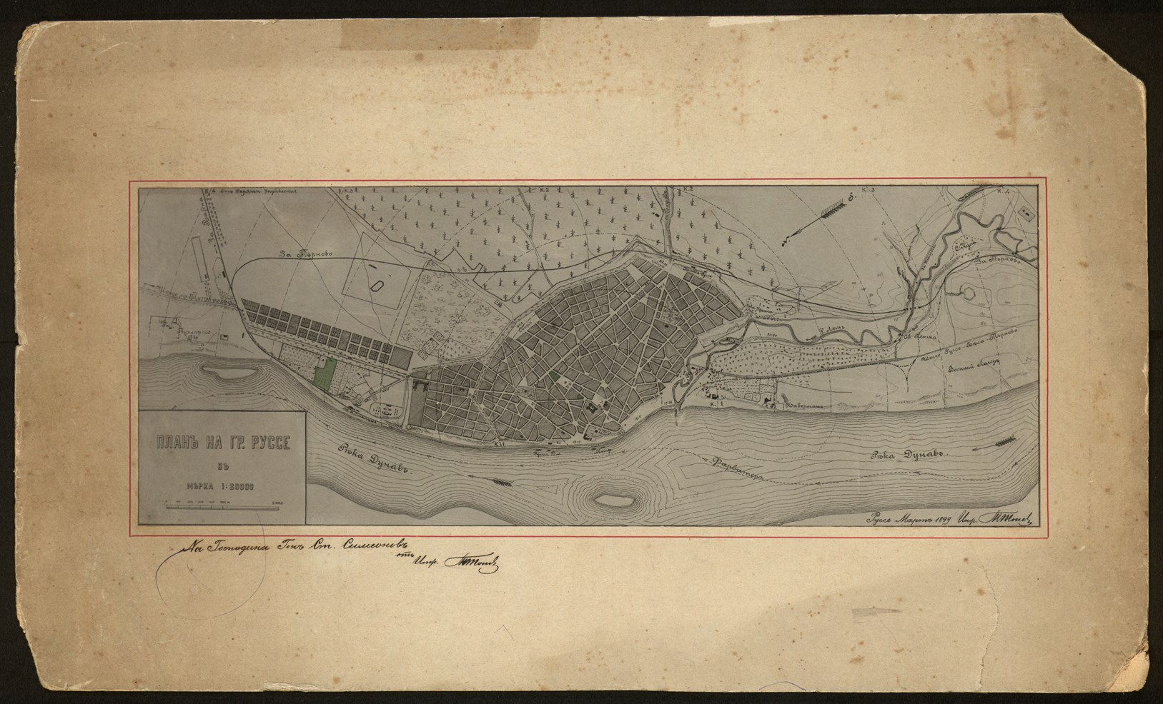 The first town-planning plan of Rousse, Bulgaria